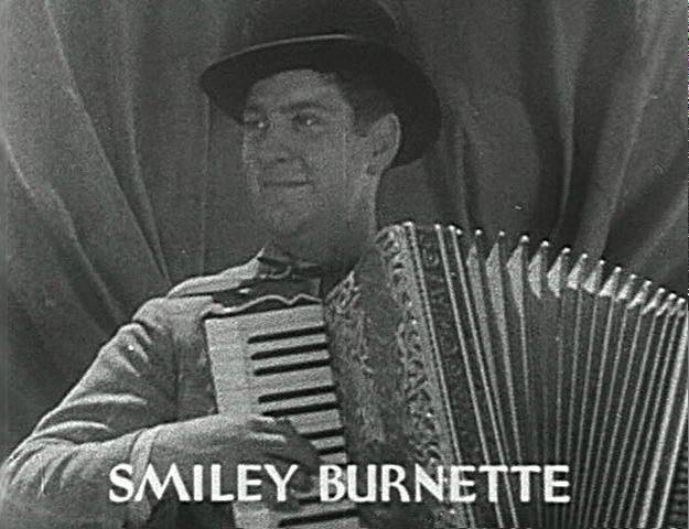 Snapshot from Oh, Susanna! (1936)